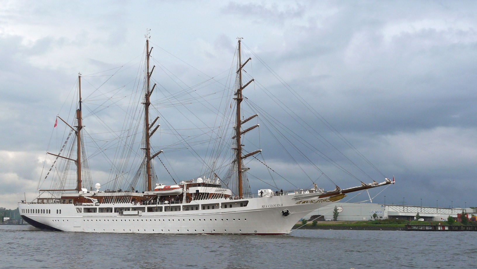 Sailing ship Sea Cloud II on the river Elbe in Hamburg/Germany